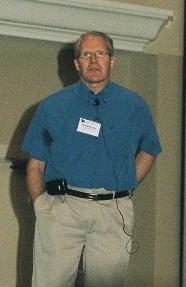 FLoC 2006: Randal Bryant